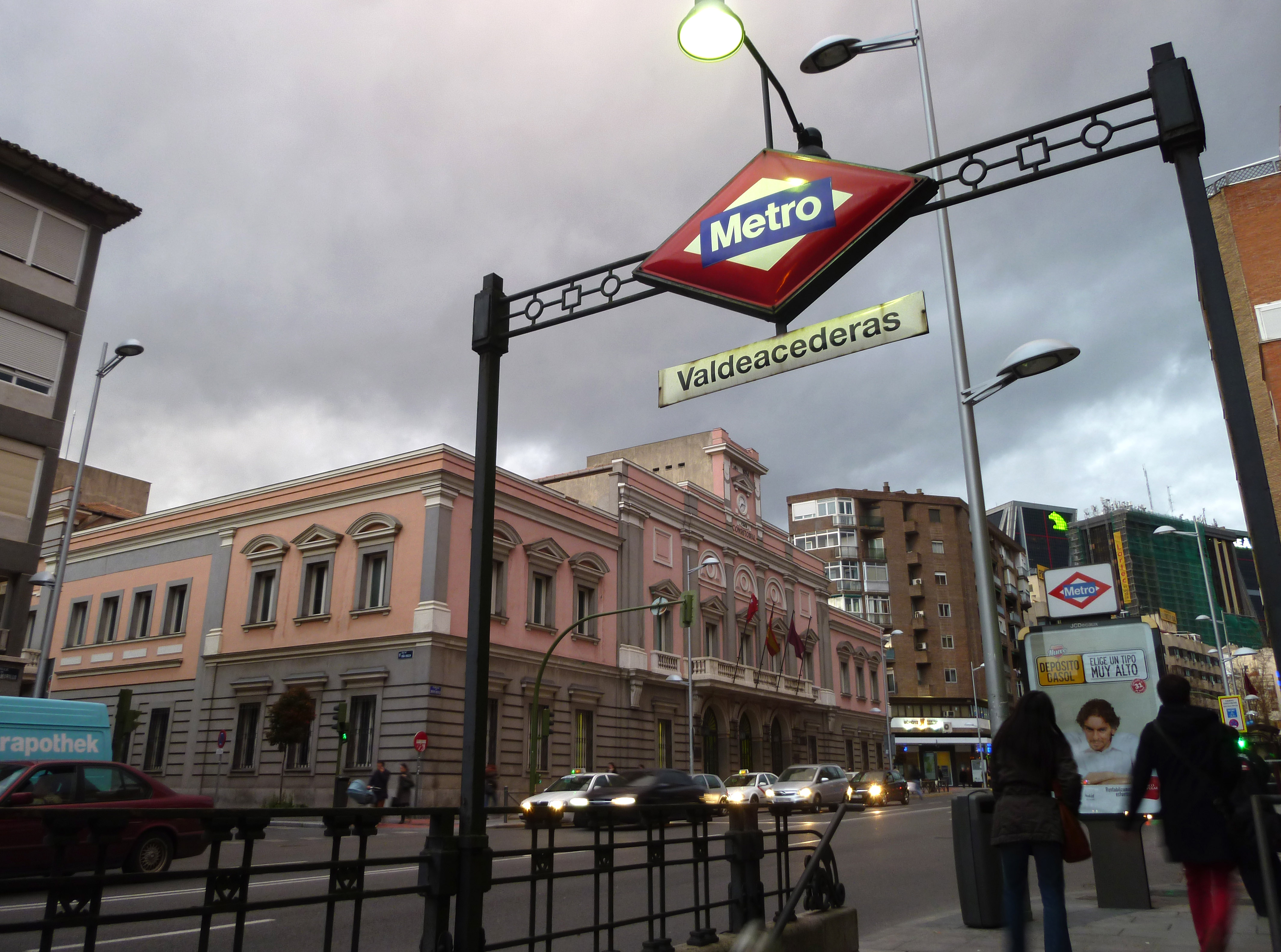 Entrance of Valdeacederas metro station in Madrid (Spain), at 350 Calle de Bravo Murillo (street). In the background, Tetuán District Hall.